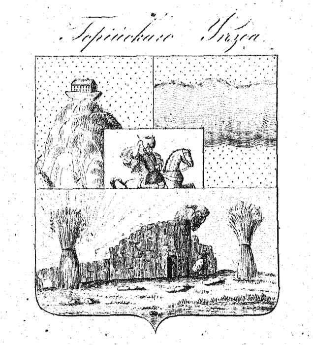 Coat of Arms of Gori Uyezd (1843), Russian Empire